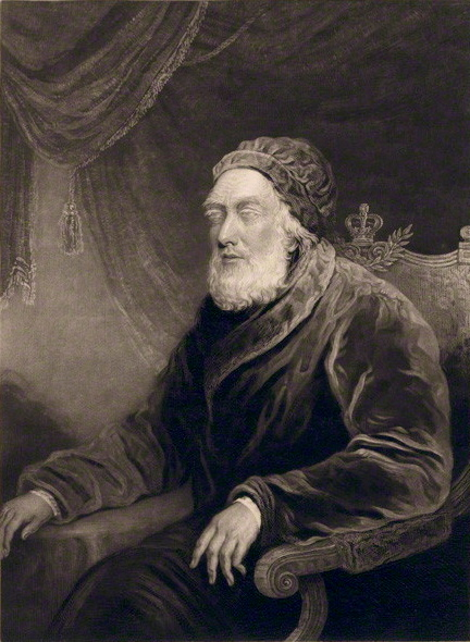 George III of the United Kingdom